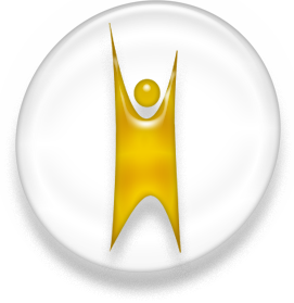 Happy human Humanist logo, white and golden version